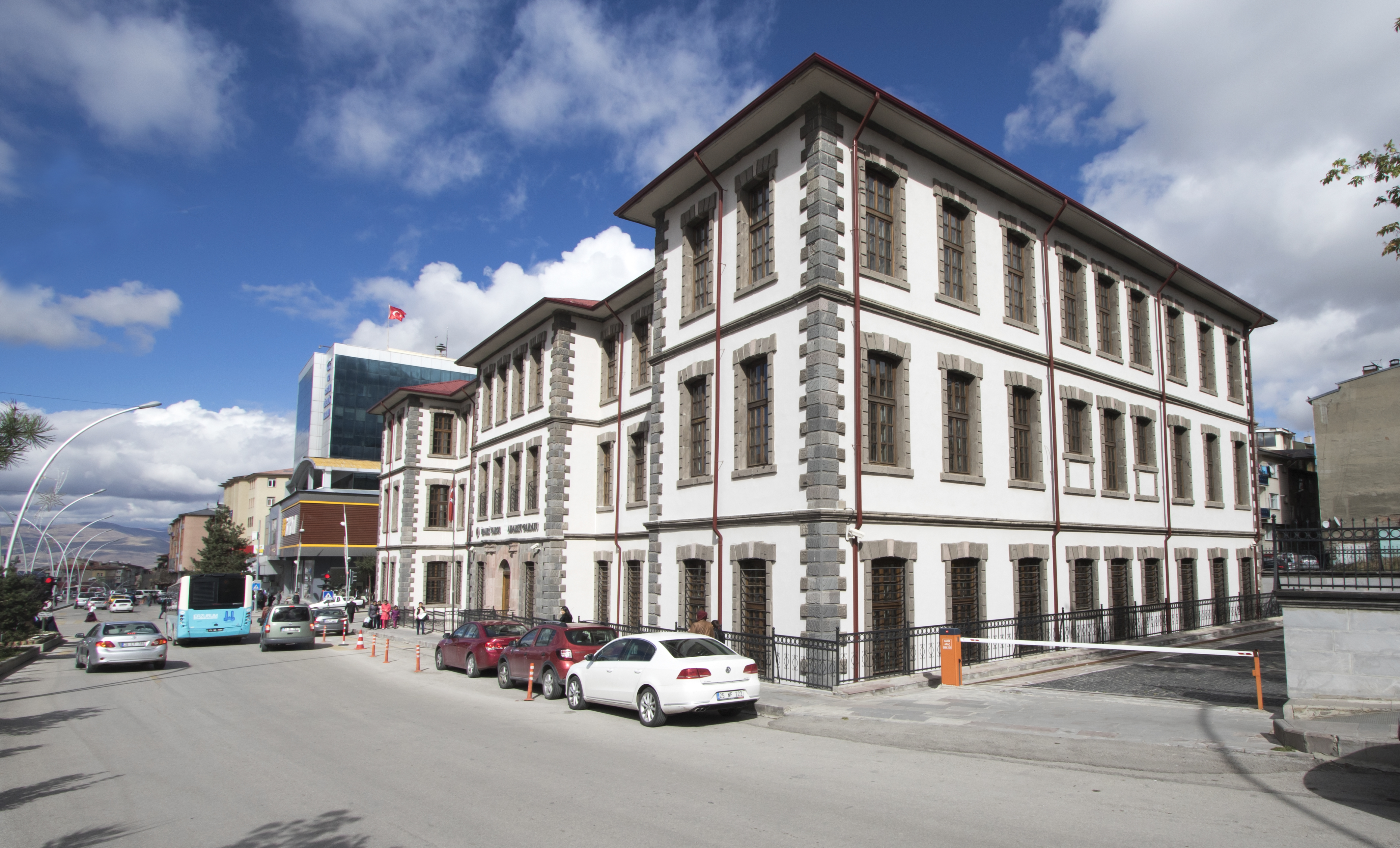 Southwestern side view of the Administrative Justice Palace, Erzurum - Turkey.